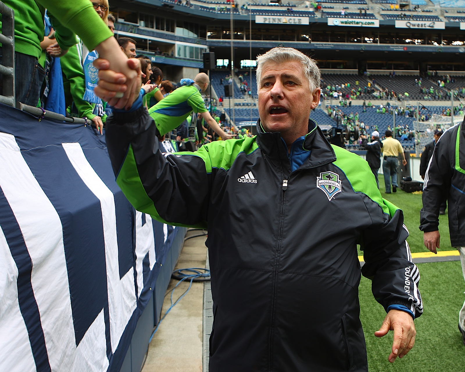 Seattle Sounders FC coach Sigi Schmid shakes a fan's hand after a 2010 game at Qwest Field in Seattle.